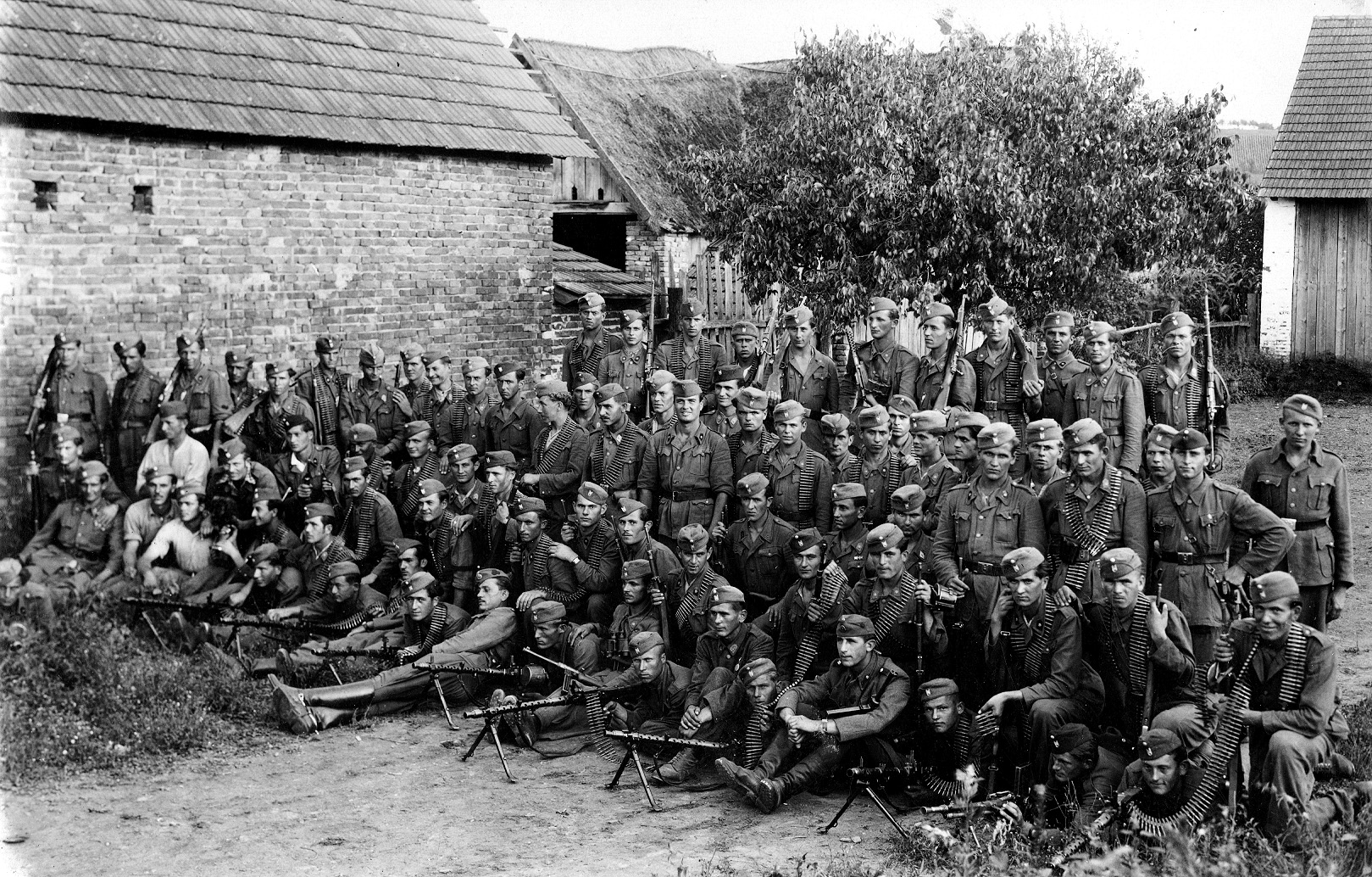 Soldiers of the Poglavnik Guard Brigade (Poglavnikov tjelesni sdrug)